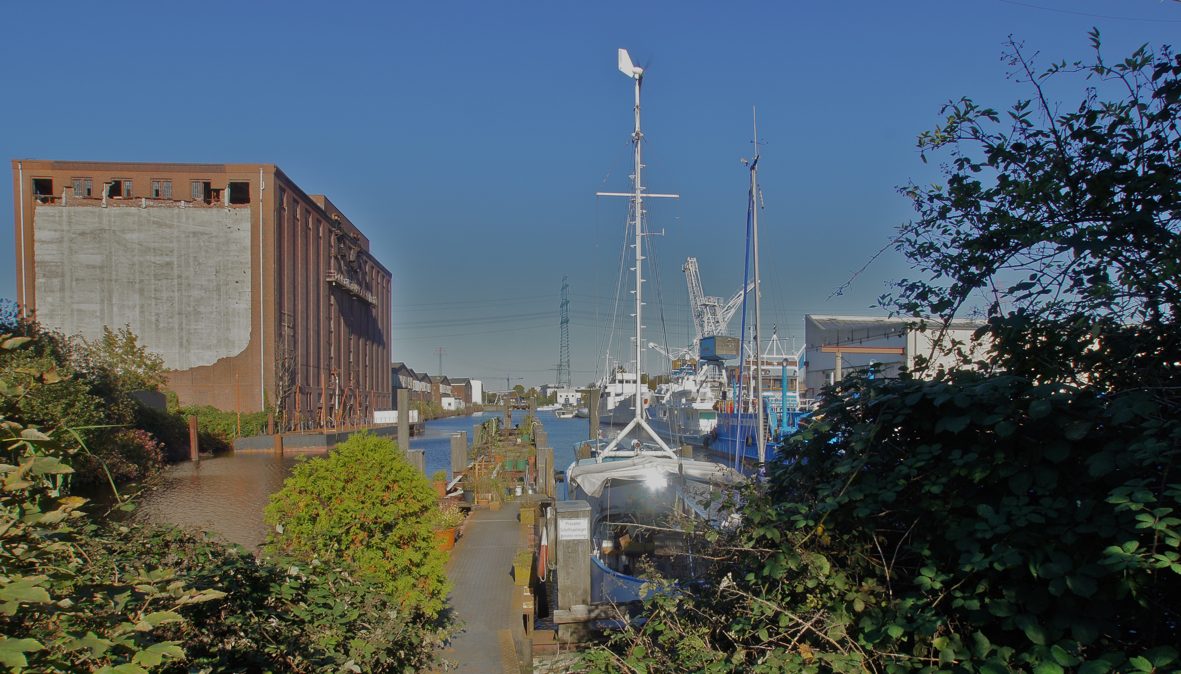 Hamburg (Harburg), Germany: The Ziegelwiesenkanal from the Seehafenstraße in northern direction